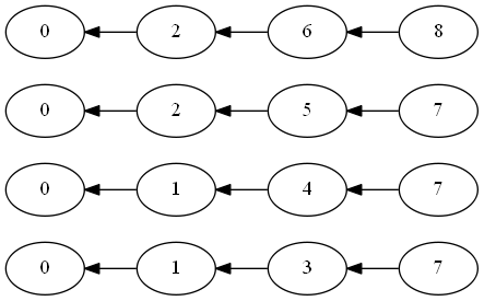 Stacks from Right to Left